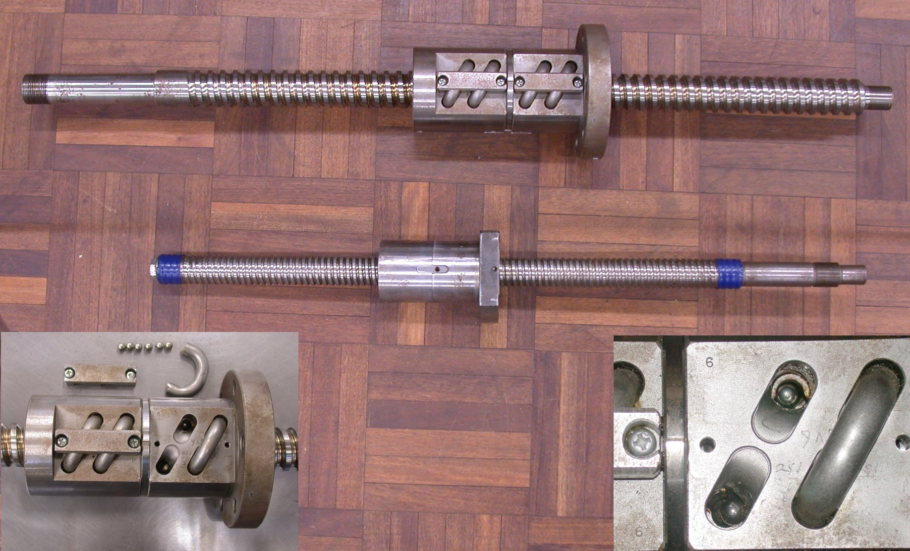 Photo showing two ball screws. Inset images are close up photos of the ball assembly of the top screw. Left inset shows recirculating tube removed showing retainer bracket, loose balls and tube. Right inset showing closer view of balls within the nut cavity. (See Image:BallScrewNut-showing-balls-recirculating-tubes.jpg for original image used in left inset)